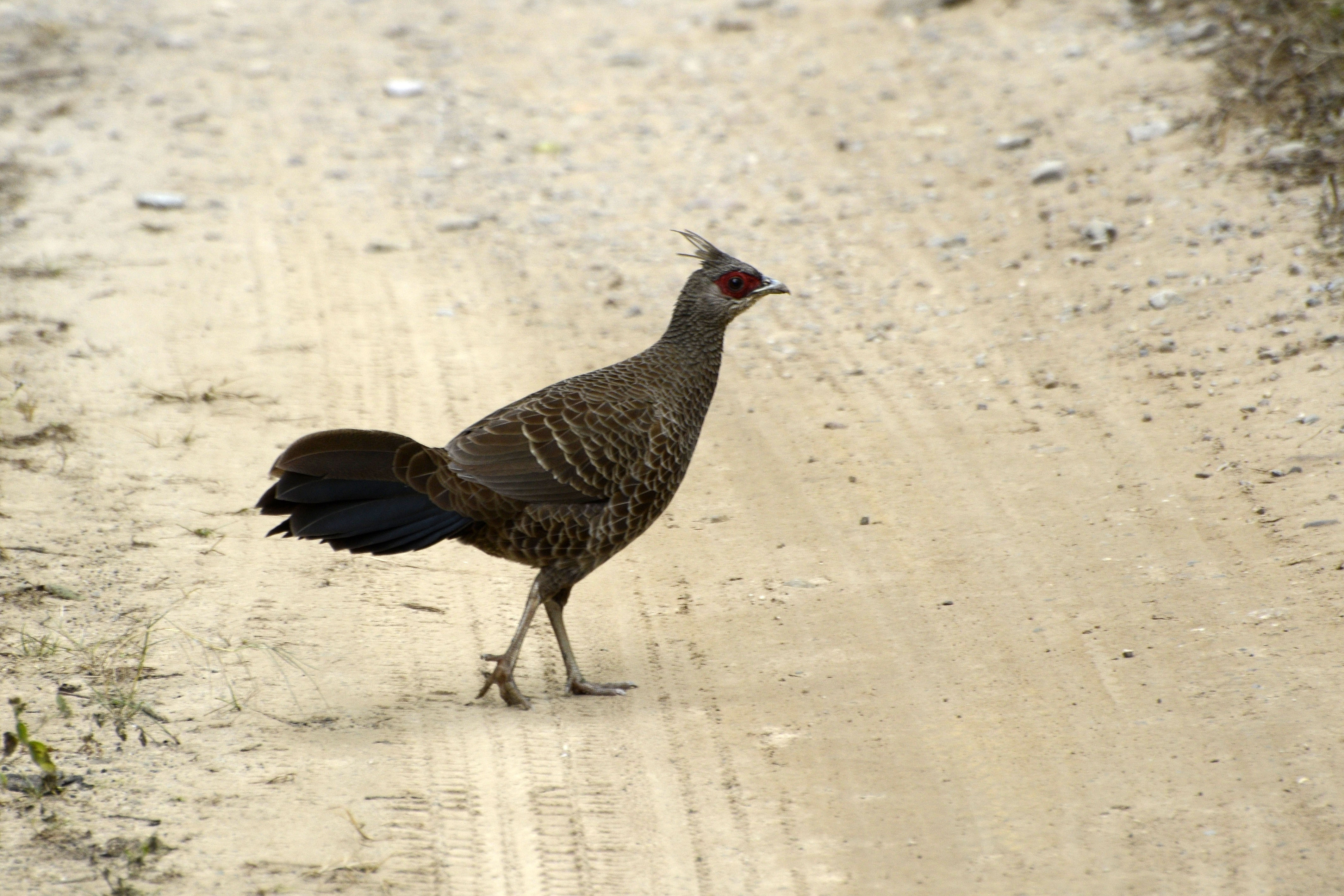 Female Kalij Pheasant from Jim Corbett National Park